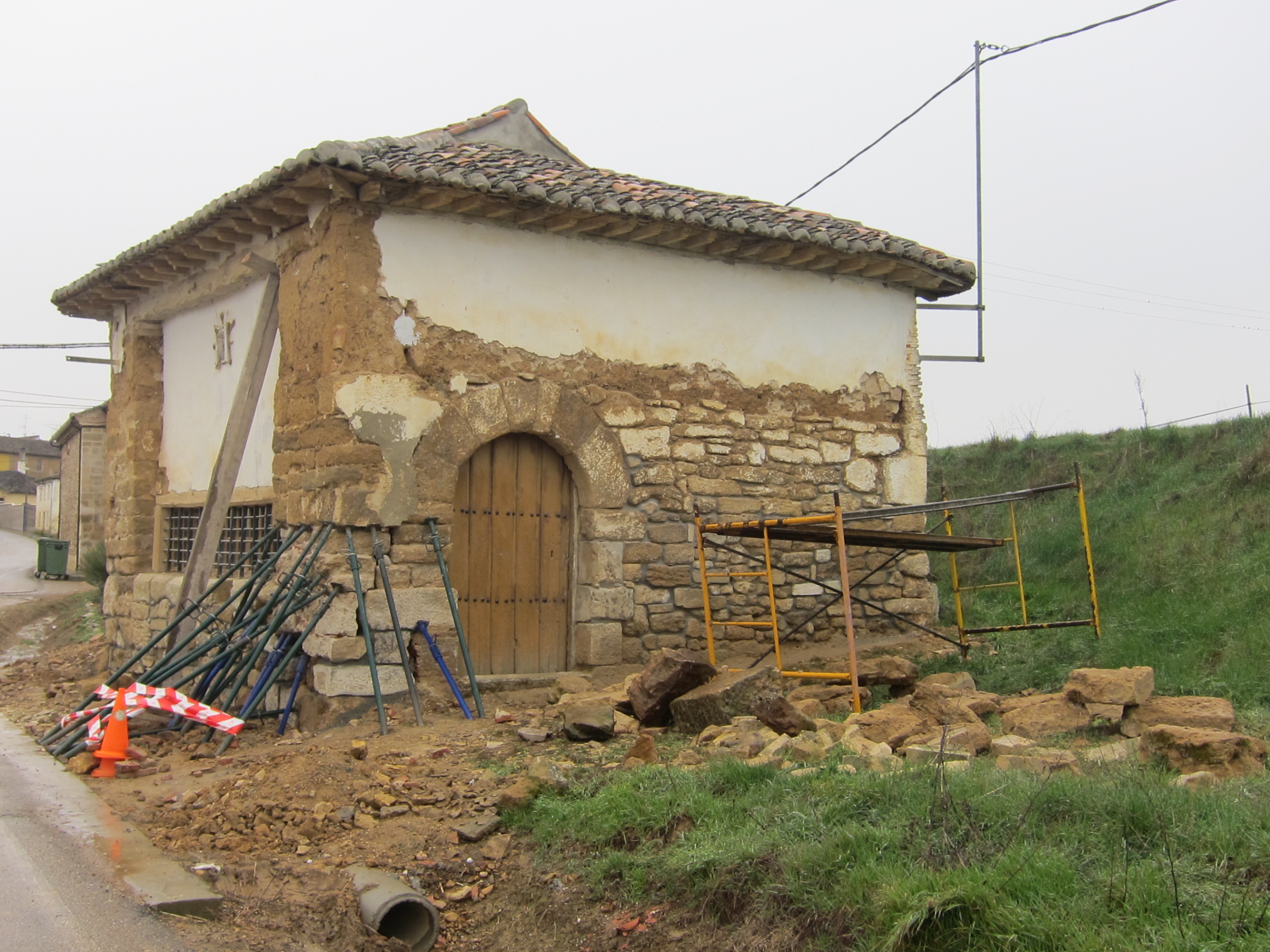 Hermitage of Santo Cristo del Humilladero in Castrillo de Villavega (Palencia, Castile and León).